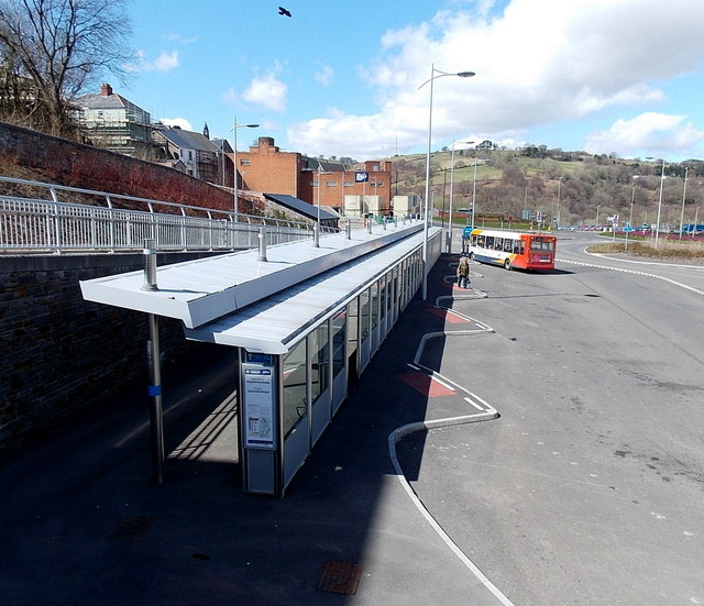 Bargoed's new bus station Known as Bargoed Interchange, the new bus station was officially opened in June 2011. It is located near Bargoed railway station. The new 5-bay facility includes a modern steel and glass passenger shelter, toilets and a new pedestrian link to High Street. At the far end of the bus station, a Stagecoach bus awaits departure for Merthyr Tydfil.